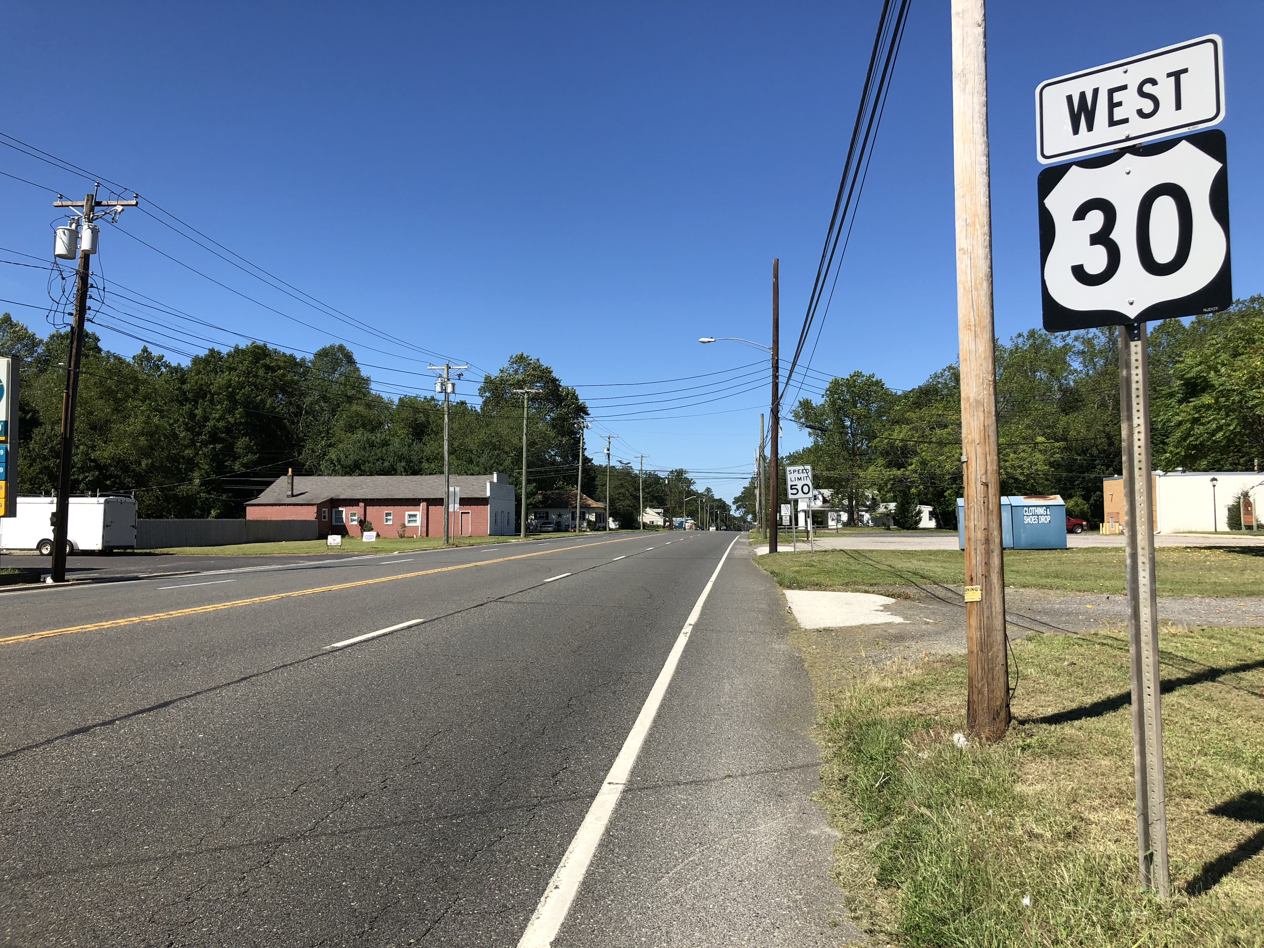 View west along U.S. Route 30 (White Horse Pike) just west of Atlantic County Route 623 (Elwood Road) in Mullica Township, Atlantic County, New Jersey